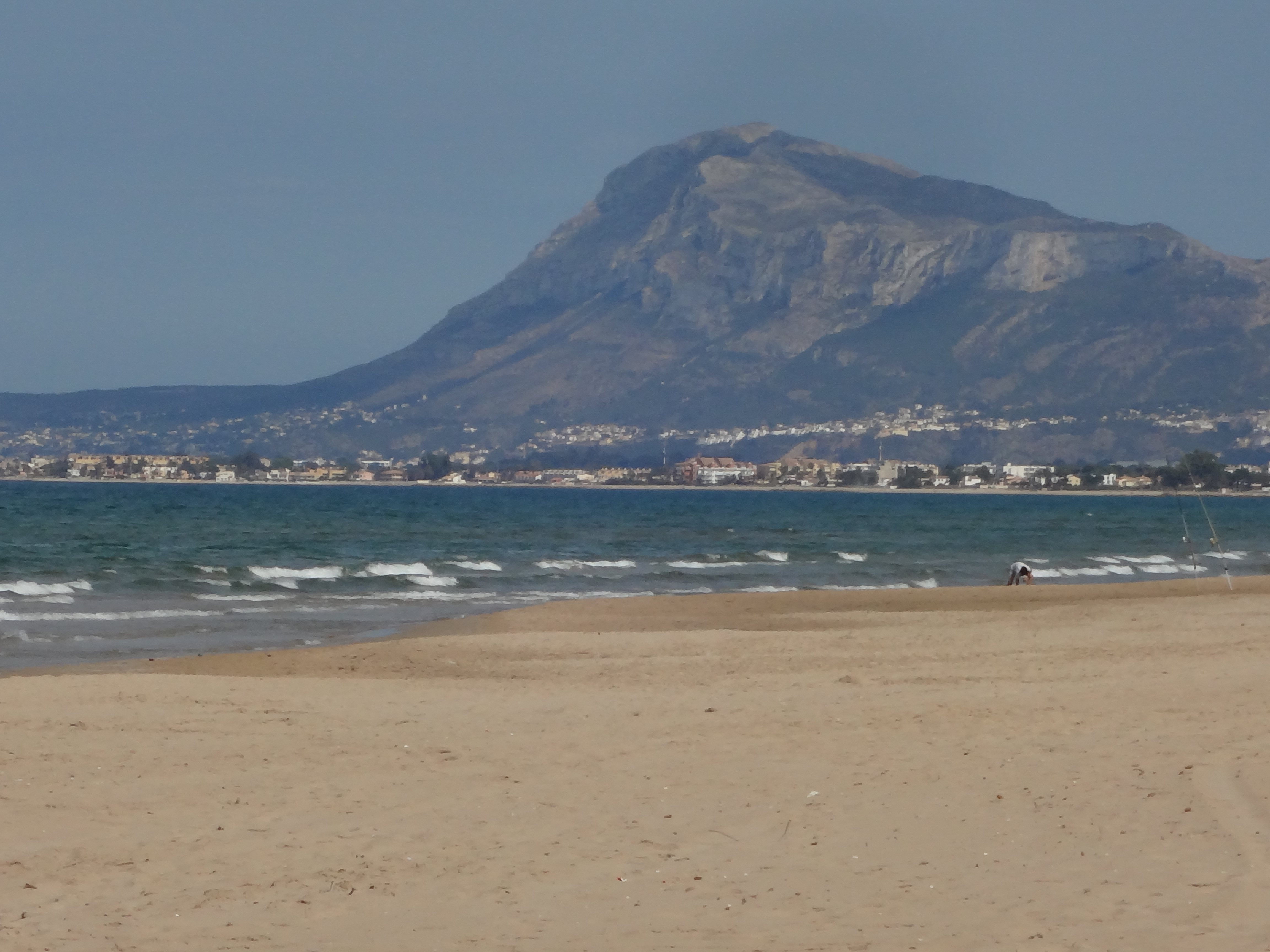 Mediterranean Sea in Oliva, Valencia Region of the Spain